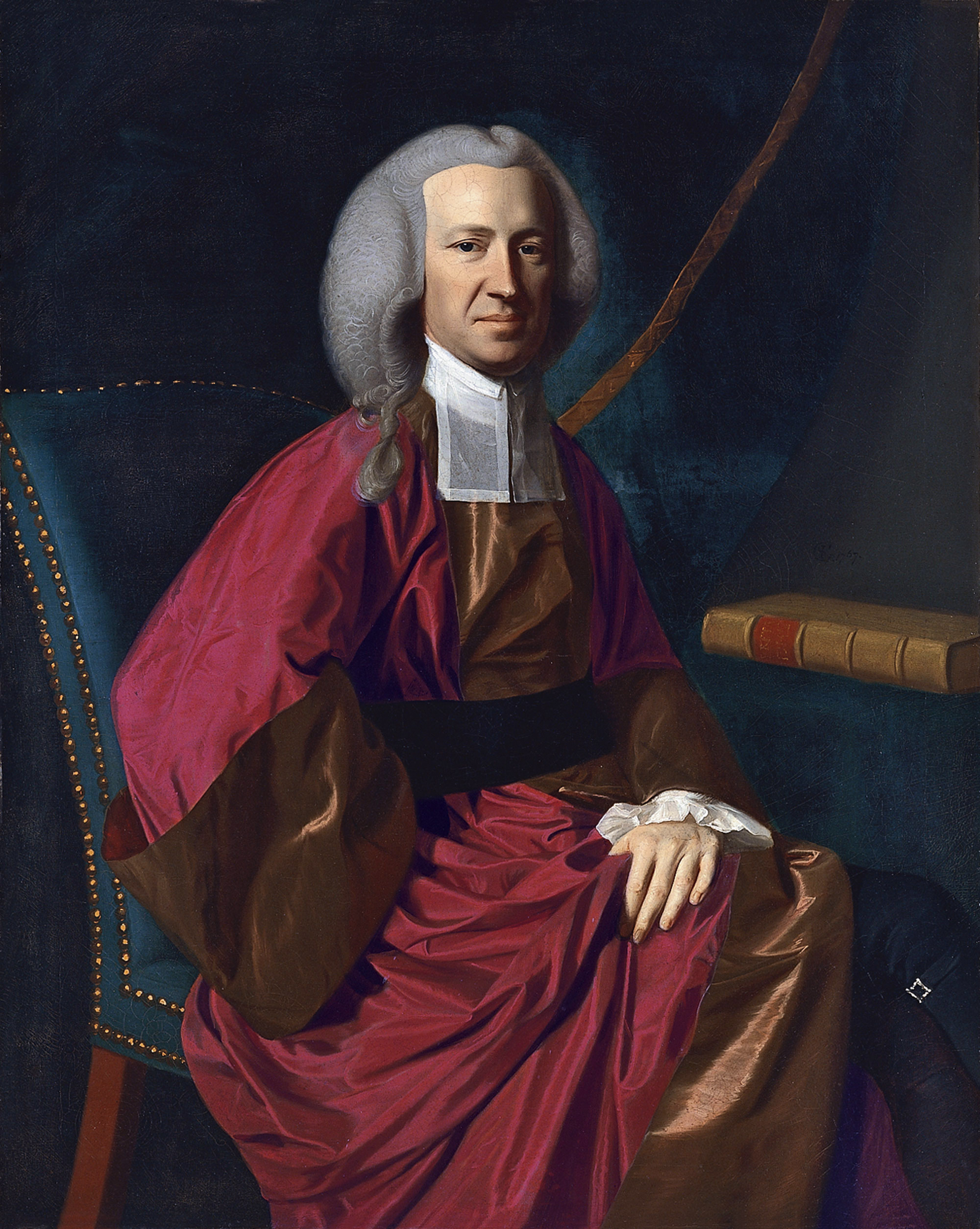 Judge Martin Howard oil on canvas 125.7 x 101 cm 1767